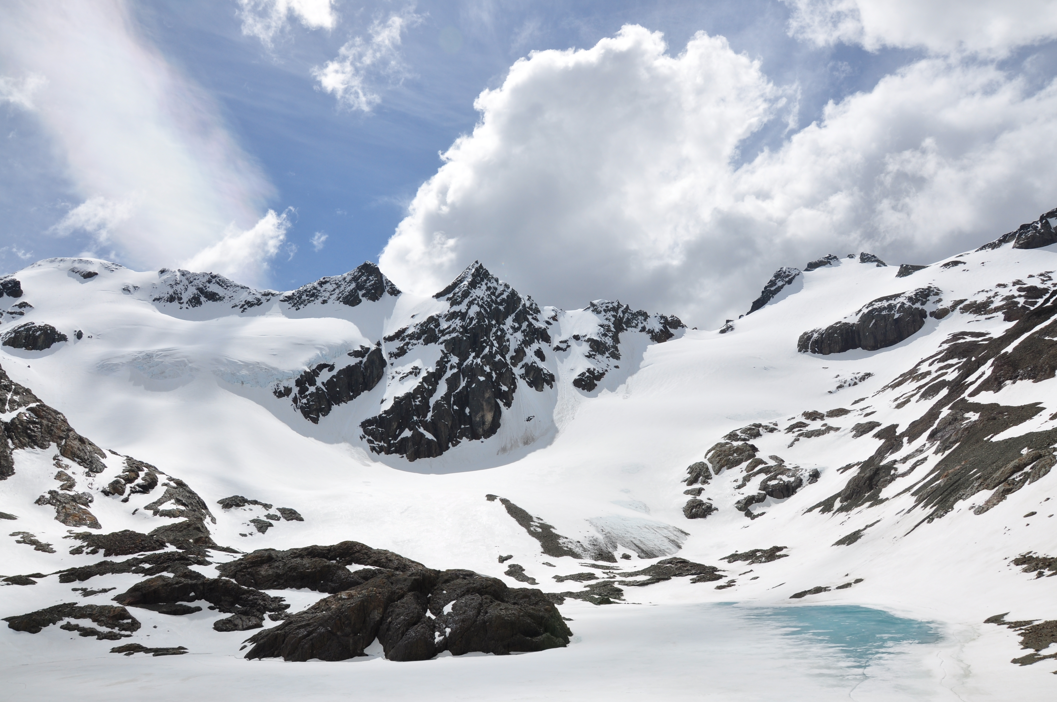 Vinciguerra Glacier (Unnamed Peaks : 1315 m, 1116 m, 1254 m, 1205 m) and De Los Tempanos Lake (716 m) (frozen) during the spring - Cordon Vinciguerra, Valley de Andorra, Tierra del Fuego, Patagonia, Argentina. Ramsar site no. 1886.